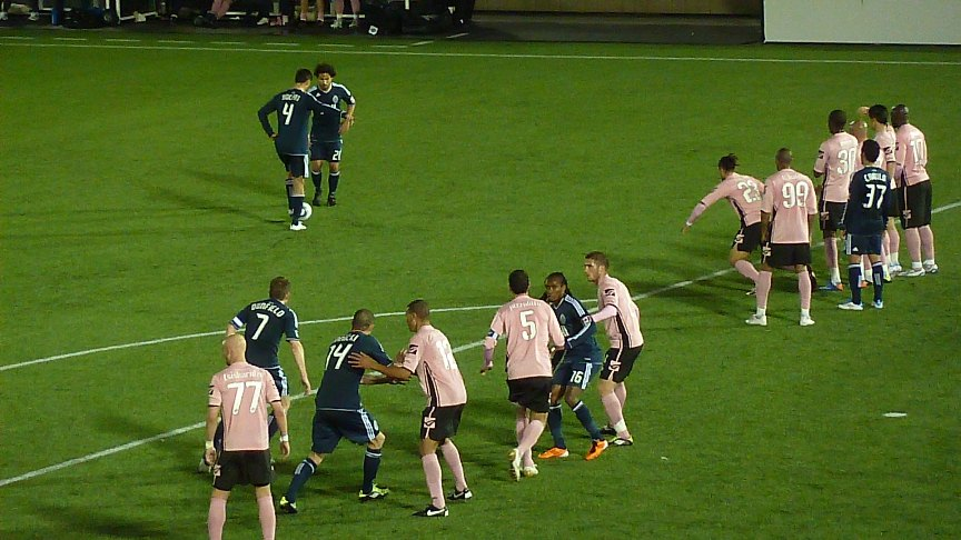 Vancouver Whitecaps' Alain Rochat (#4) and Davide Chiumineto plan a free kick during a Canadian championship soccer match against the Montreal Impact on 4 May 2011 at Empire Field, Vancouver, Canada.